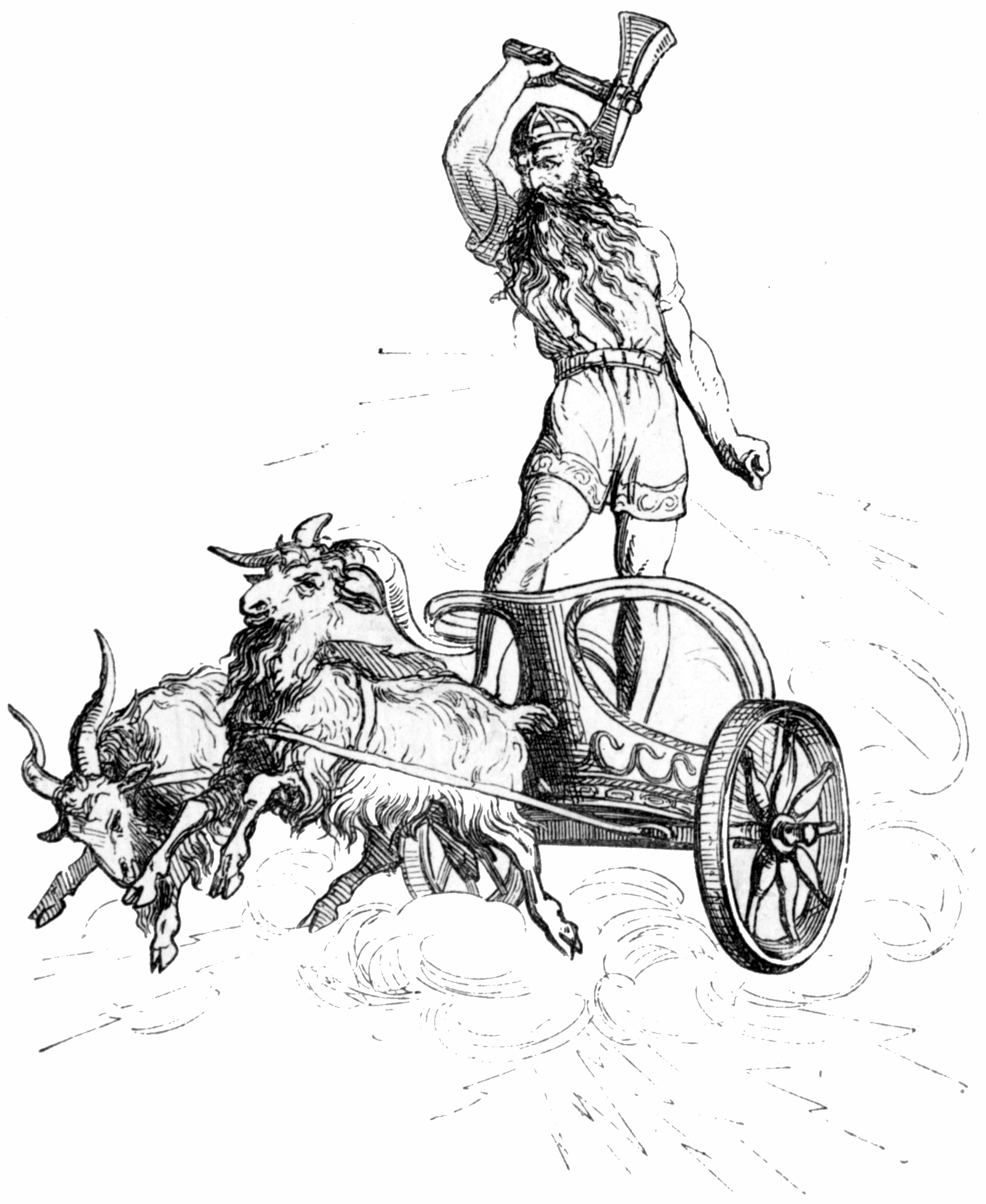 The god Thor, riding in his chariot